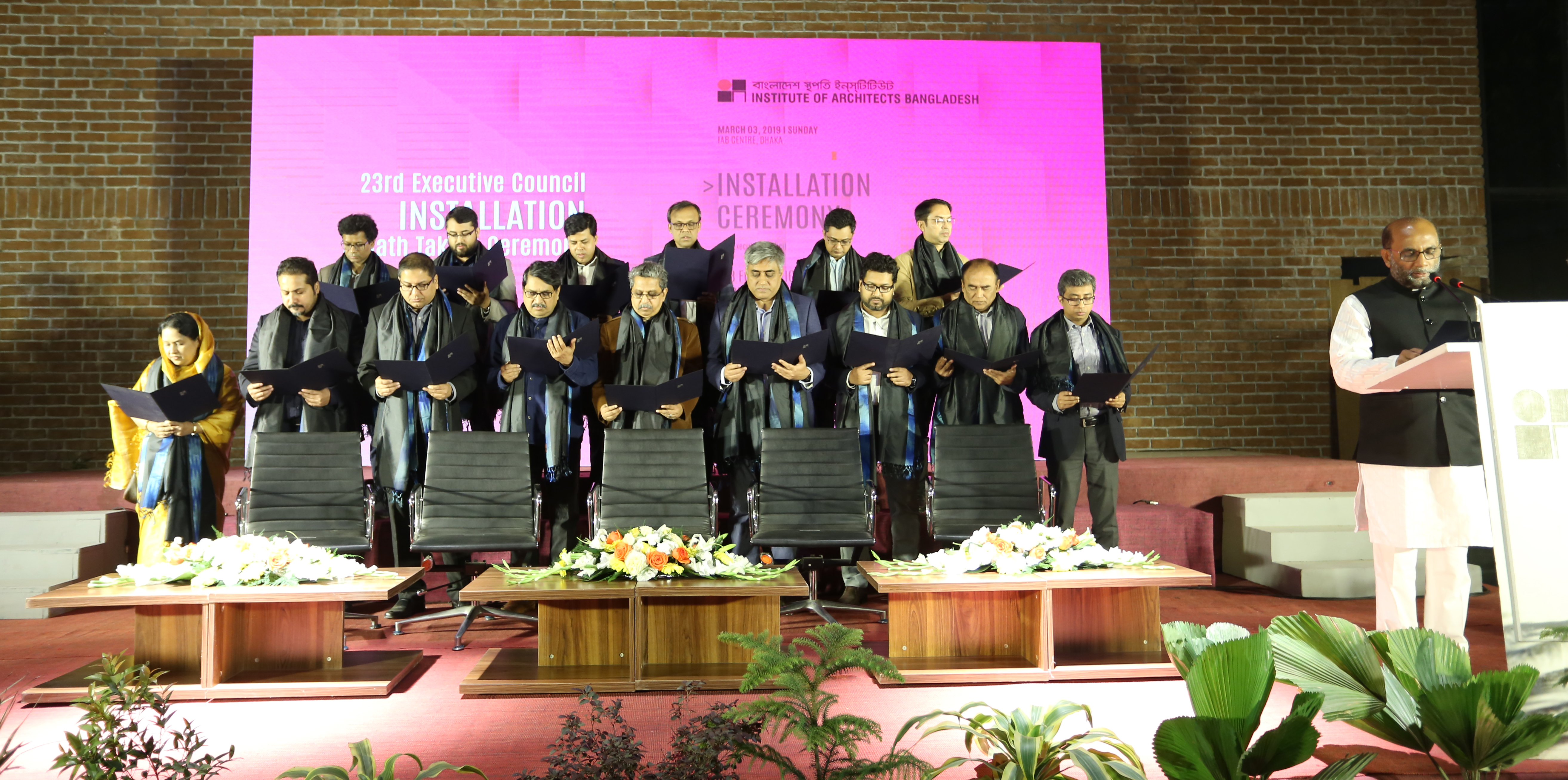 ২৩তম নির্বাহী পরিষদ